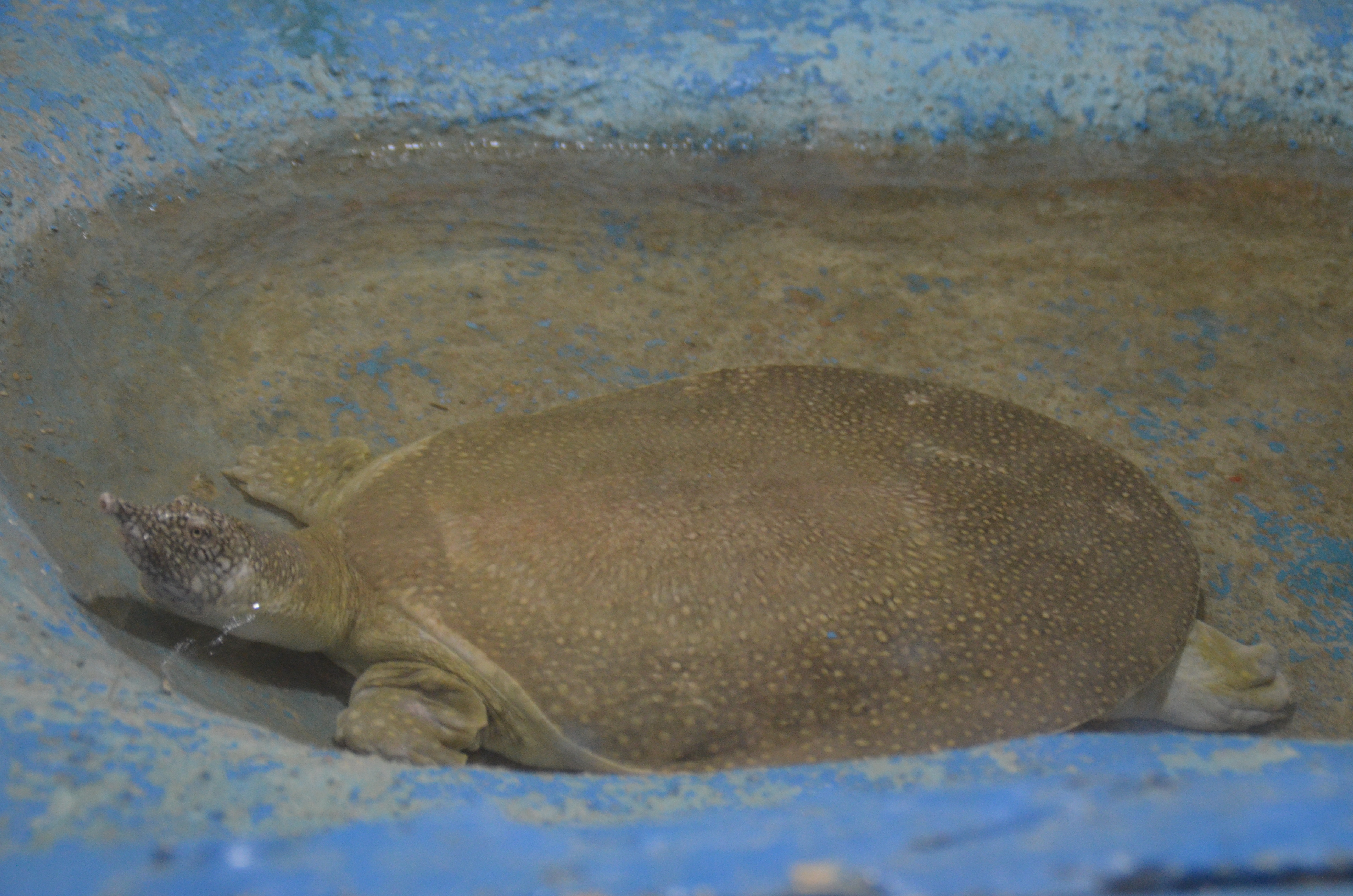 Nile softshell turtle - African softshell turtle